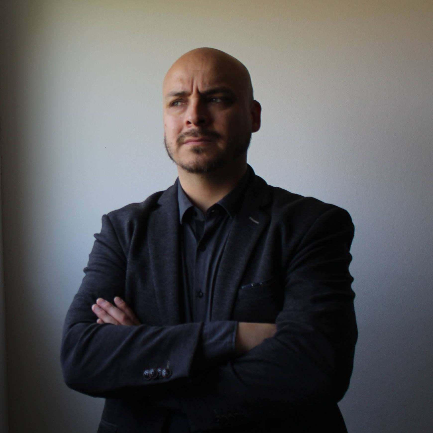 Picture Professor